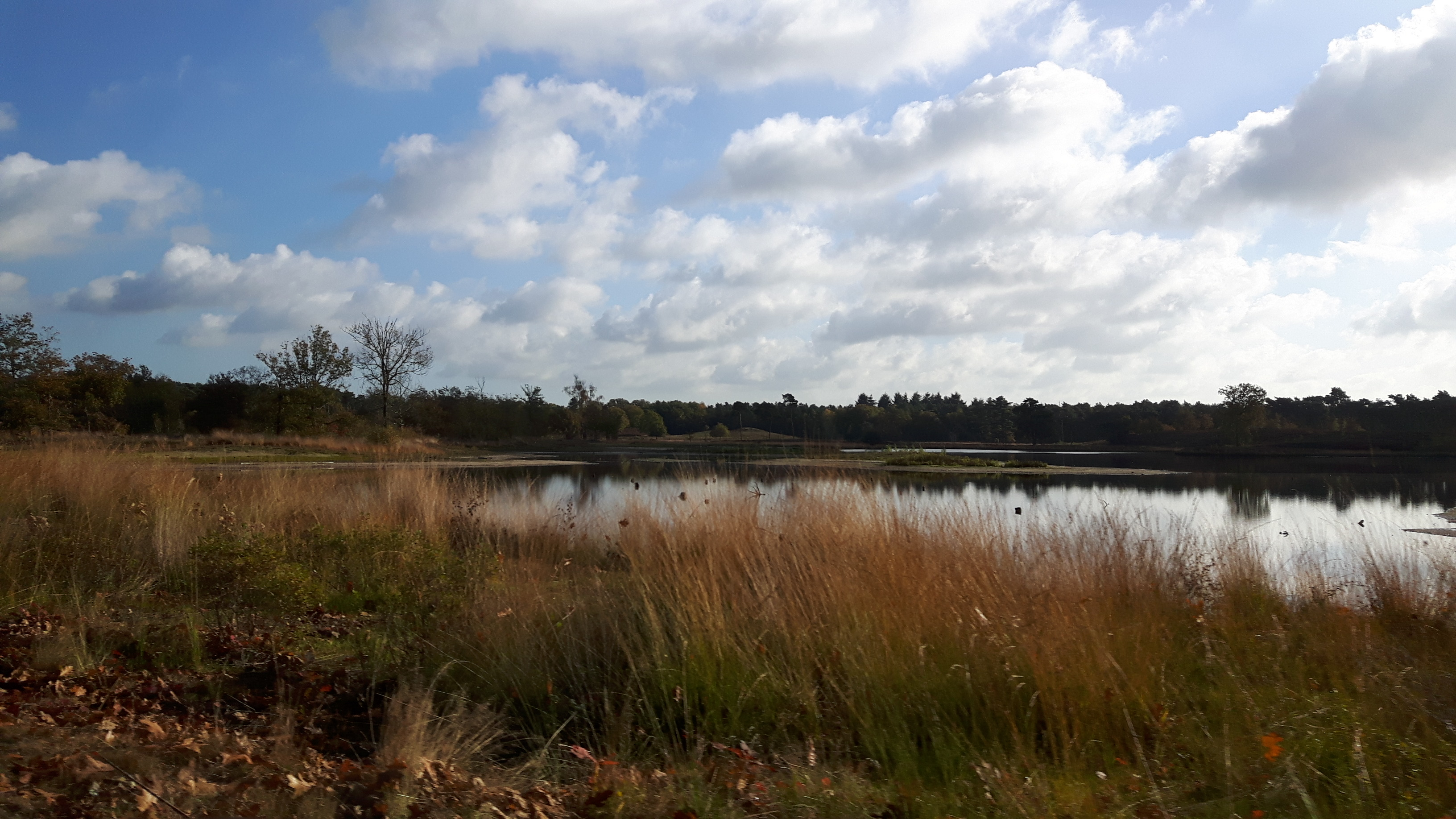 Hatertse en Overasseltse Vennen